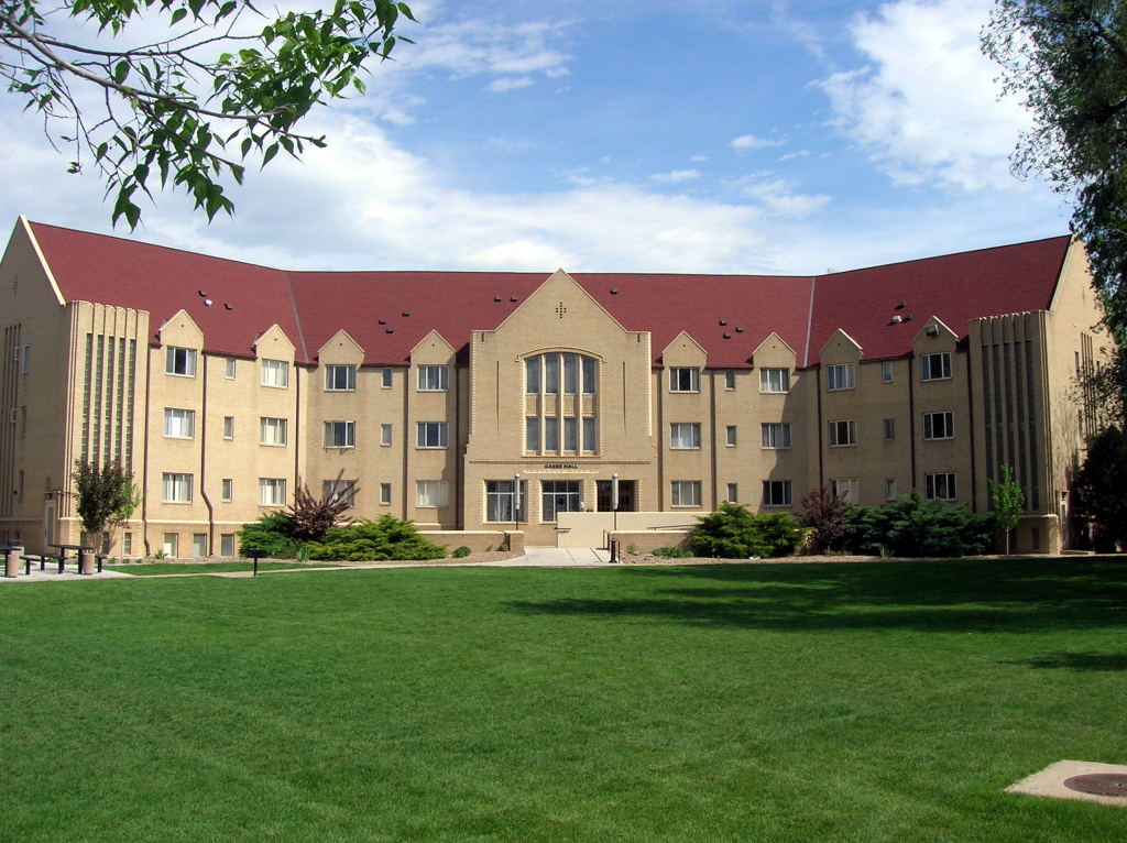 This is a photo of Gaebe Hall at the former Colorado Women's College campus in Denver, Colorado. For a time, the campus belonged to the University of Denver. Now it is home to the Denver satellite campus of Johnson & Wales University.